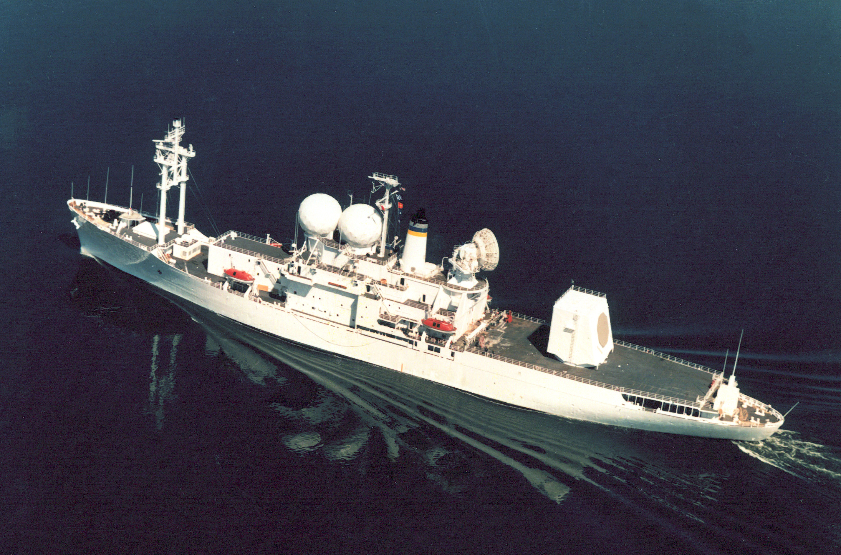 USNS Observation Island (T-AGM 23) operates worldwide, monitoring compliance with strategic arms treaties and supporting U.S. military weapons test programs. Observation Island carries an Air Force ship-borne phased-array radar system for collecting data on missile tests. The ship is operated by Military Sealift Command for the U.S. Air Force Technical Applications Center at Patrick Air Force Base, Florida.